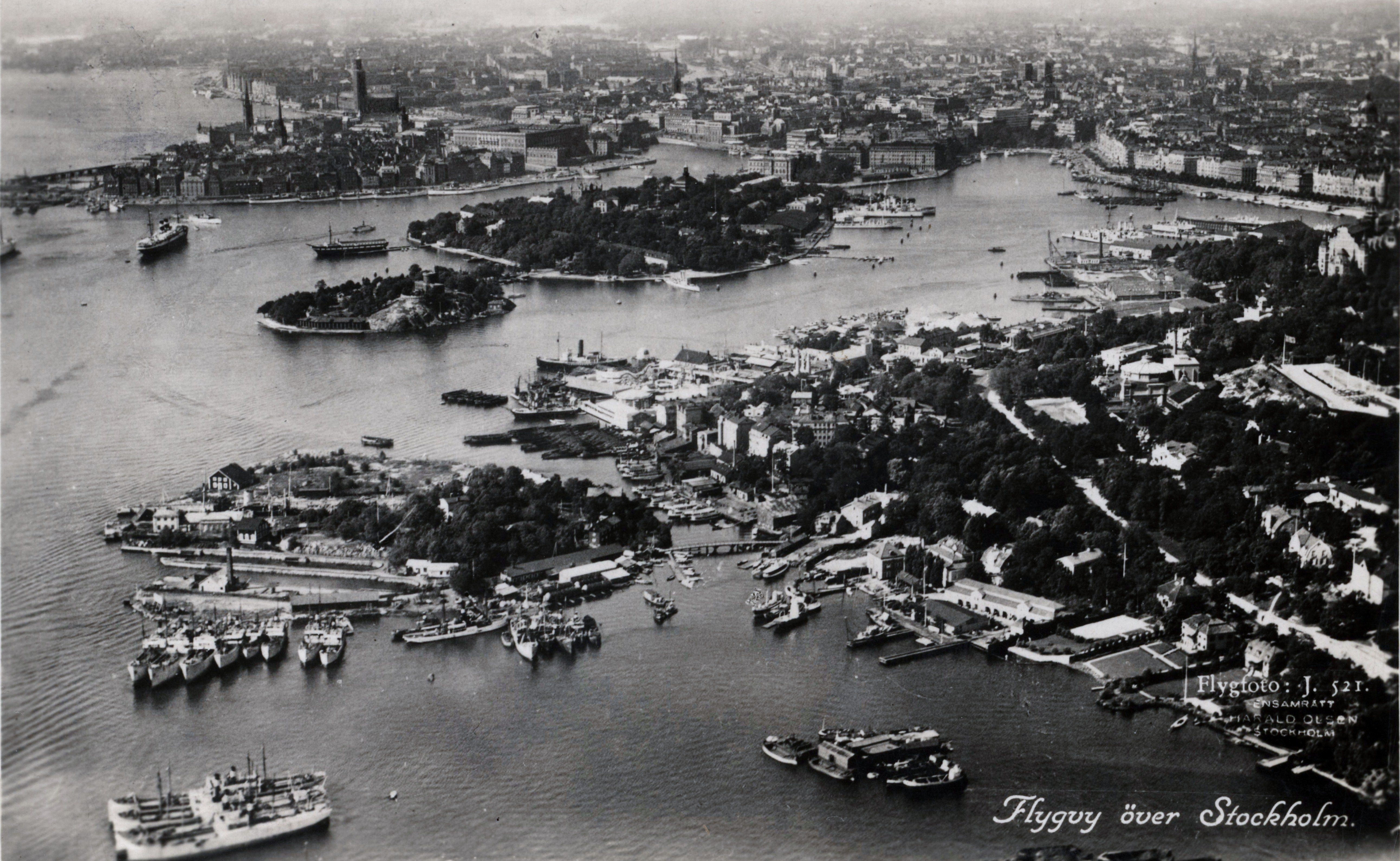 Aerial view of Stockholm before 1935, by Harald Olsen (died 1934)